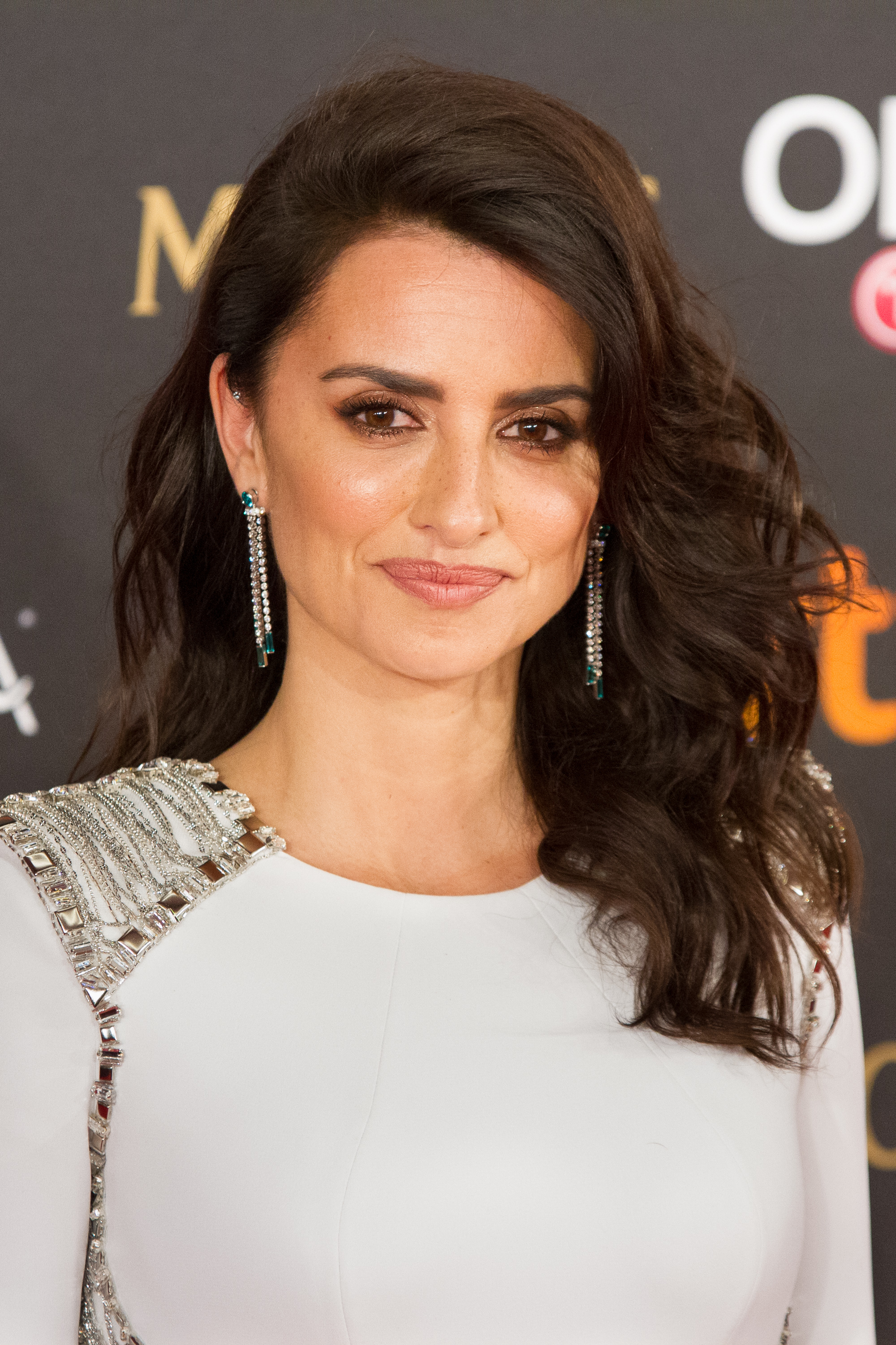 Penélope Cruz at the 32nd Goya Awards, 2018.